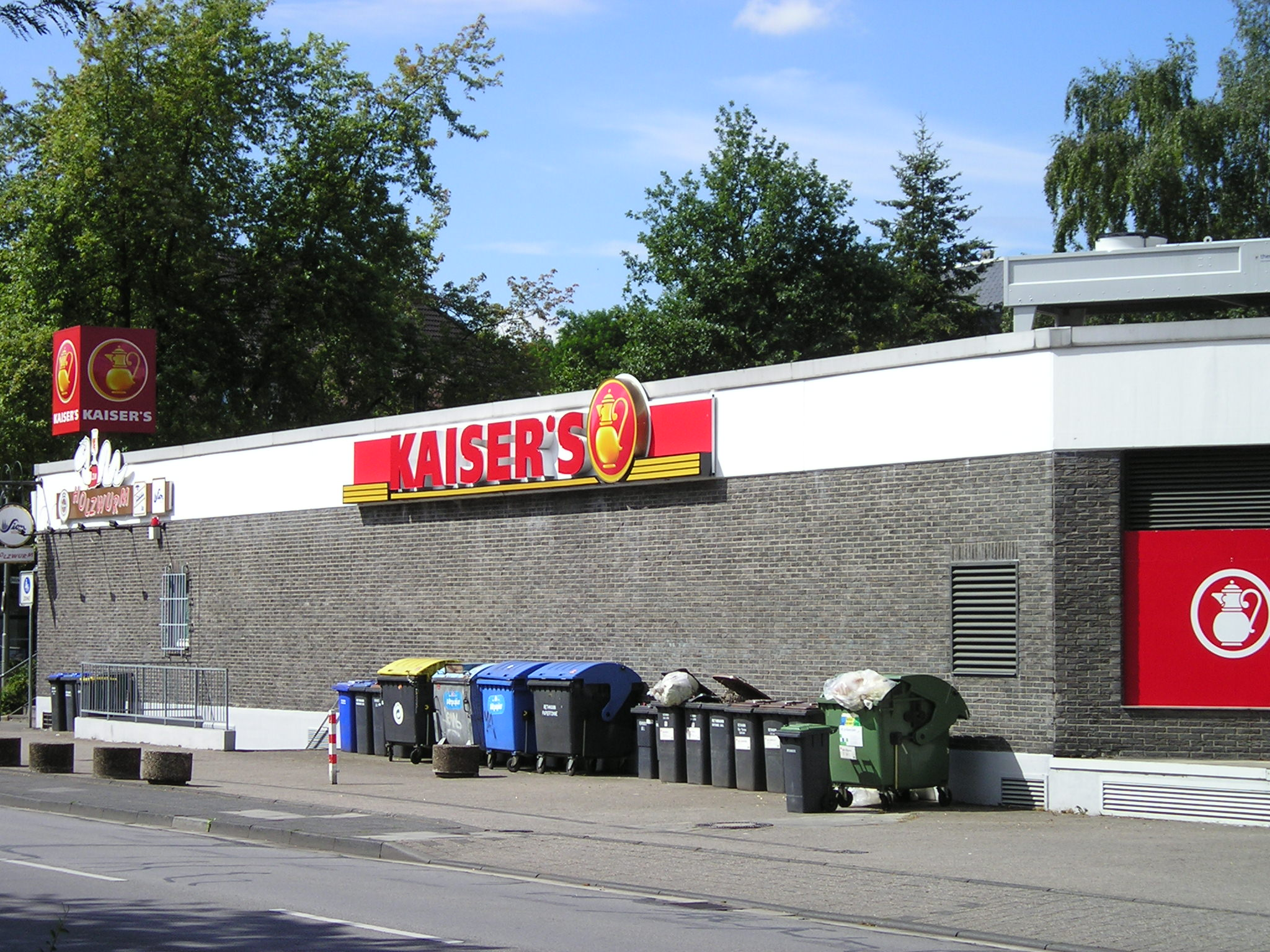 Kaiser's supermarket in Monheim am Rhein-Baumberg in Germany